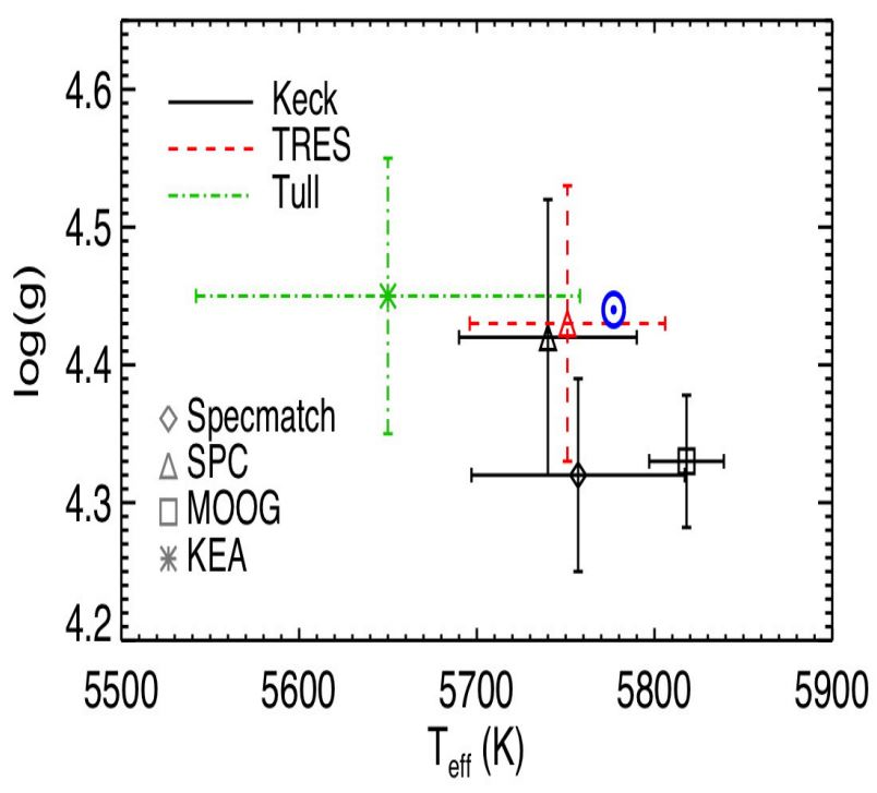 Spectroscopically derived surface gravity as a function of effective temperature (top panel) and metallicity (bottom panel) for KIC 8311864 (Kepler-452), derived using different methods and spectra.